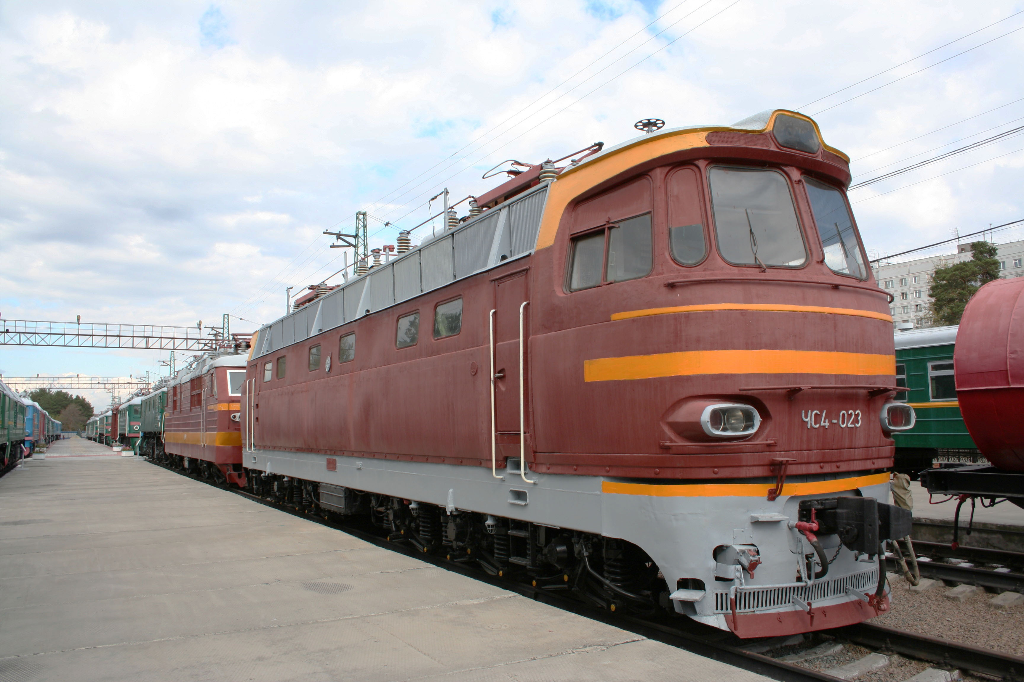 Electric locomotive ЧС4-023 in Novosibirsk Railway Museum